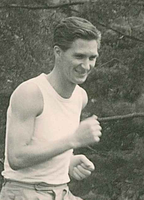 E. Rafael